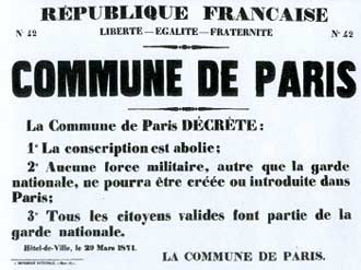 Paris Commune conscription poster